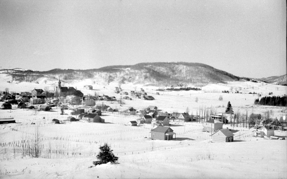 We see Saint-Sauveur-des-Monts in the Laurentians.